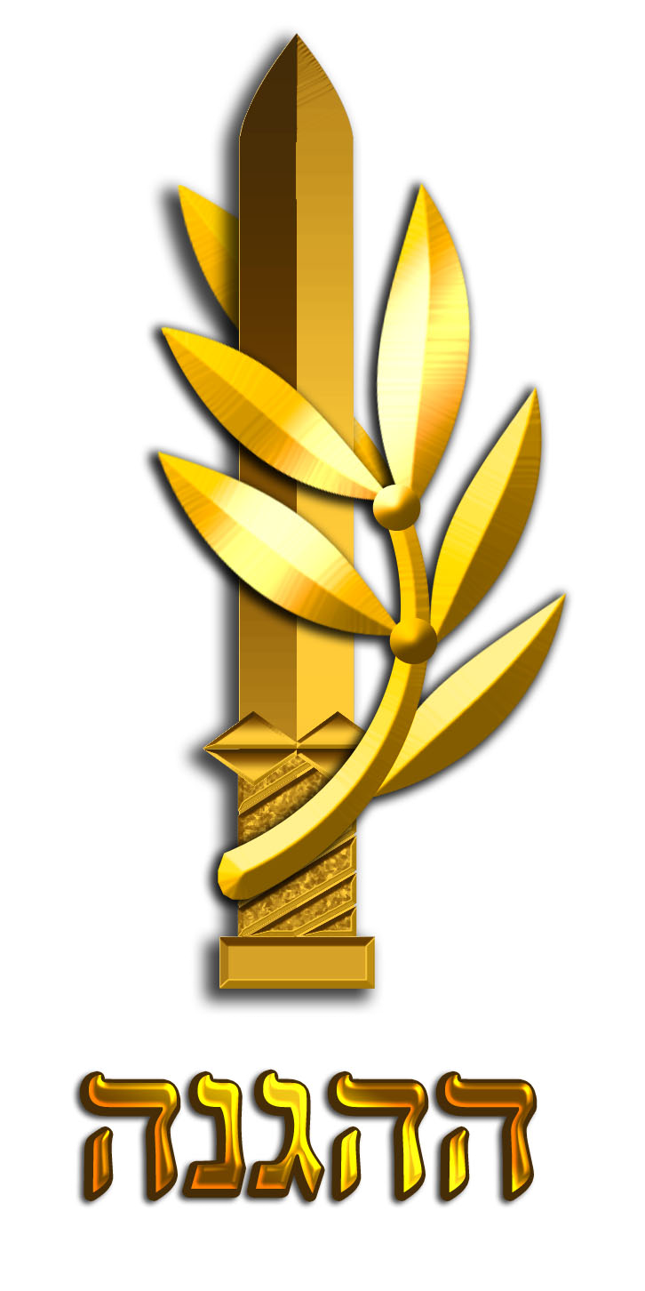 The Haganah Organisation Emblem